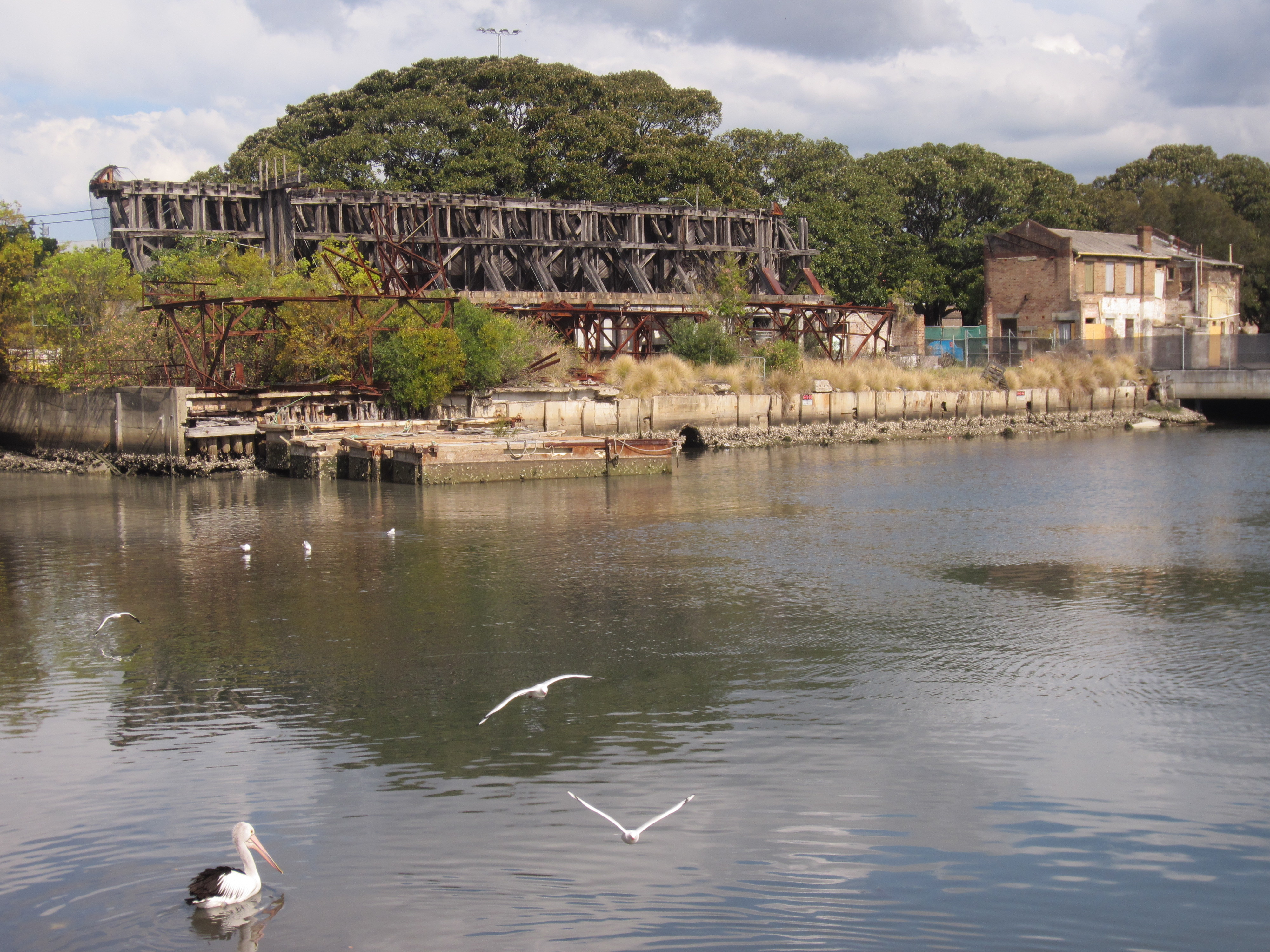 Remains of coal bunker on left, gate-house building on right and rusting gantry in front of bunker structure.